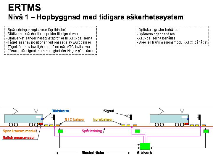 ETRMS Level 1